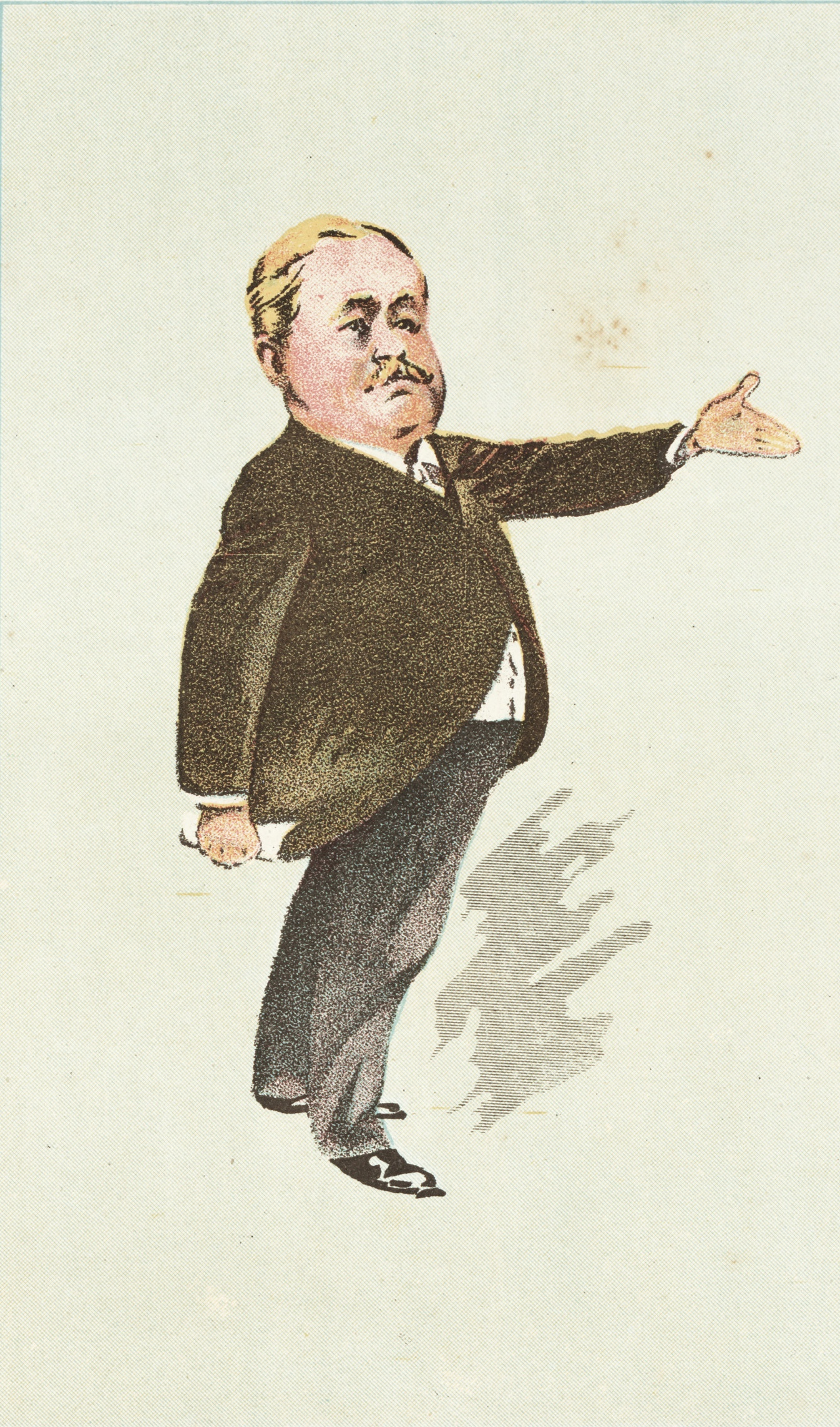 Caricatures, with names and nicknames of: "Mr Speaker" (Sir G M O'Rorke), "Mines" (The Hon A J Cadman), "Ironsand" (Mr E M Smith), "Hard to drive" (Mr W Crowther), "The Doctor" (Dr Newman), "The white flower" (Major Steward), "The Patriarch" (Mr A Saunders), "Haere Mai" (Mr Hone Heke).